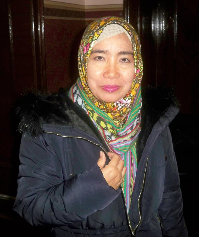 Indonesian poetess Deknong Kemalawati